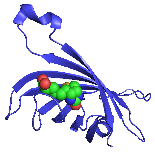 Monomeric Streptavidin (displayed as ribbon diagram) with bound biotin (displayed as spheres). Picture derived from 1STP. Ref: Weber, P.C.,Ohlendorf, D.H.,Wendoloski, J.J.,Salemme, F.R., Structural origins of high-affinity biotin binding to streptavidin.1989. Science 243 (85-88)